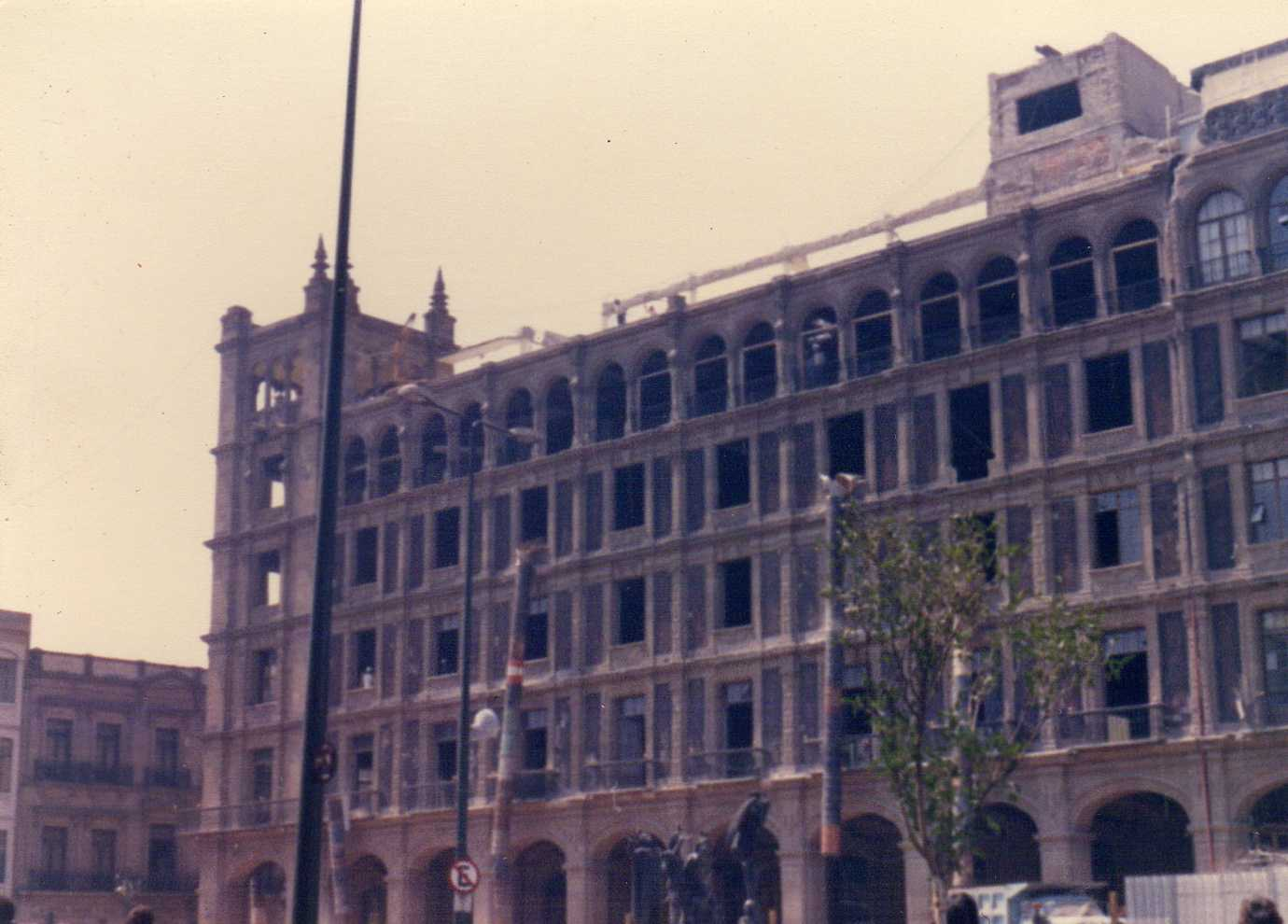 Images of Mexico City Earthquake, September 19, 1985.